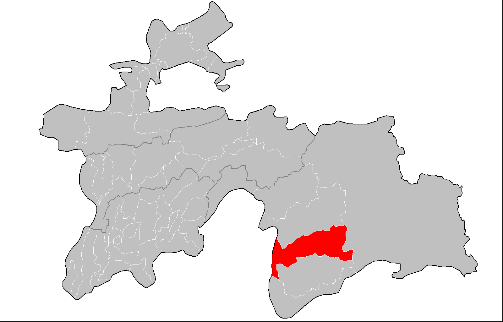 Location of Shughnon District in Tajikistan